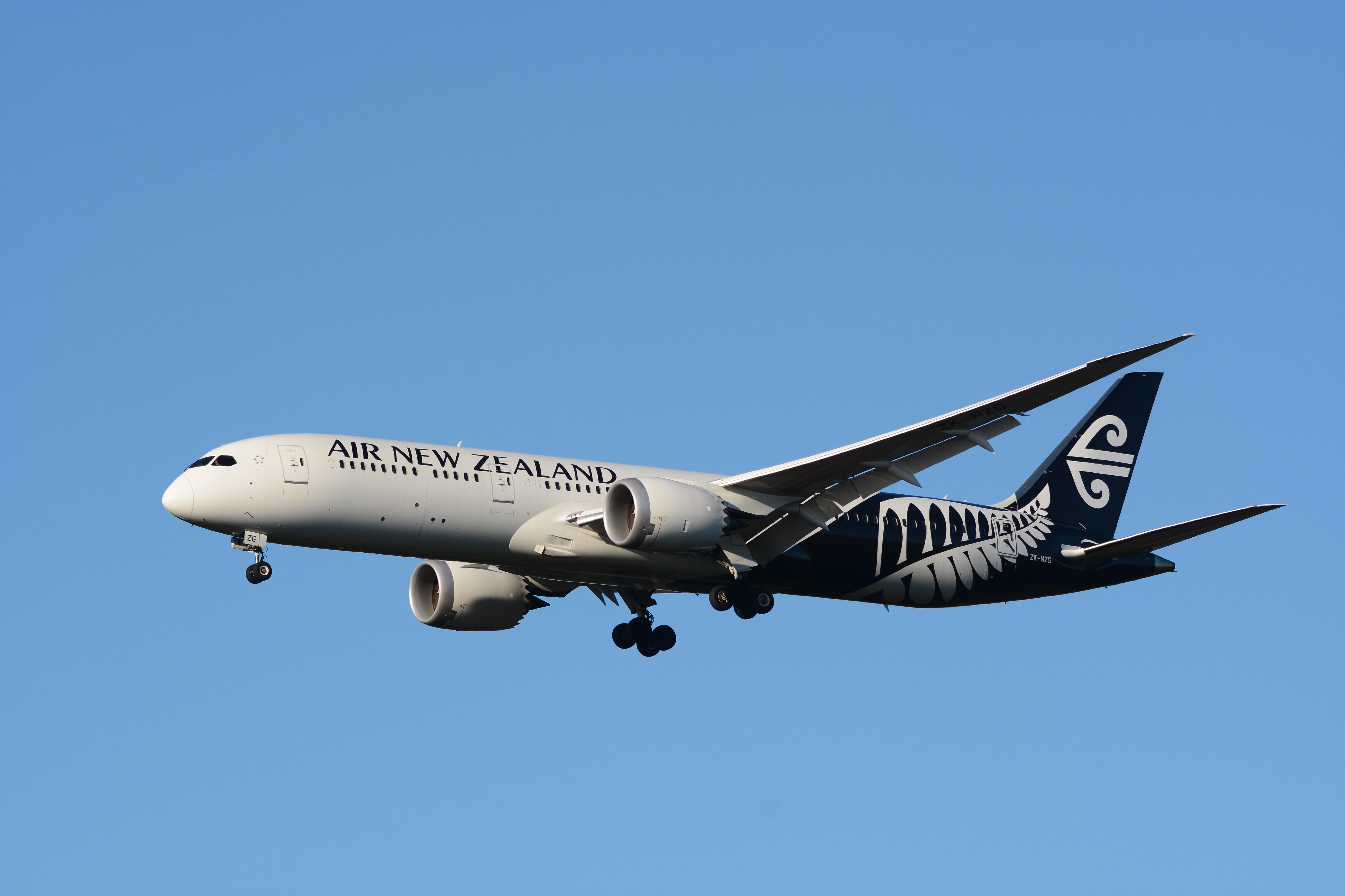 Air New Zealand, Boeing 787-9, ZK-NZG NRT